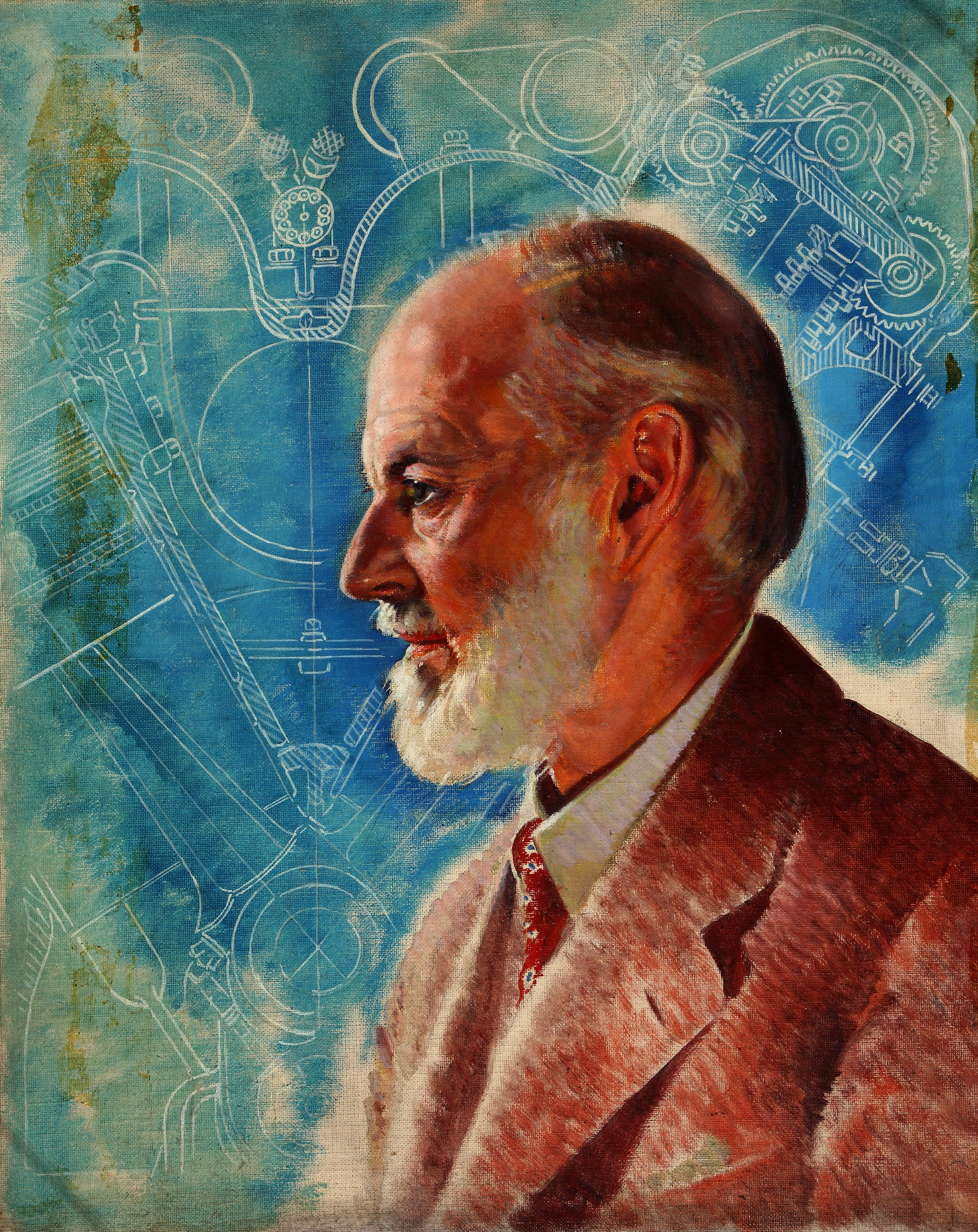 Sir Henry Royce Depicted person: Henry Royce